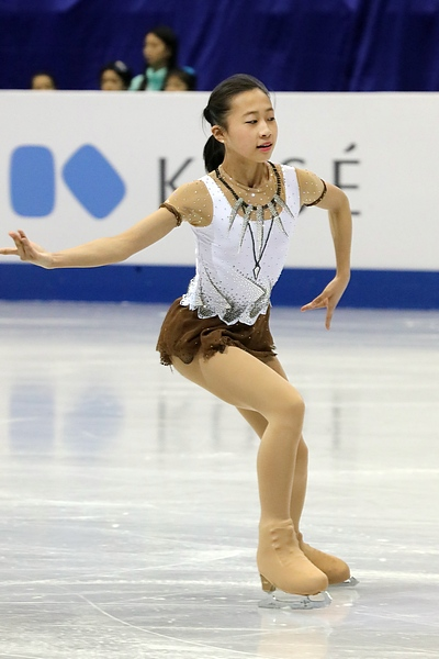 Photos – Junior World Championships 2017 – Ladies